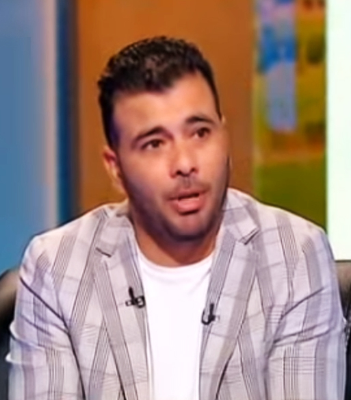 Emad Moteab, Egyptian football player